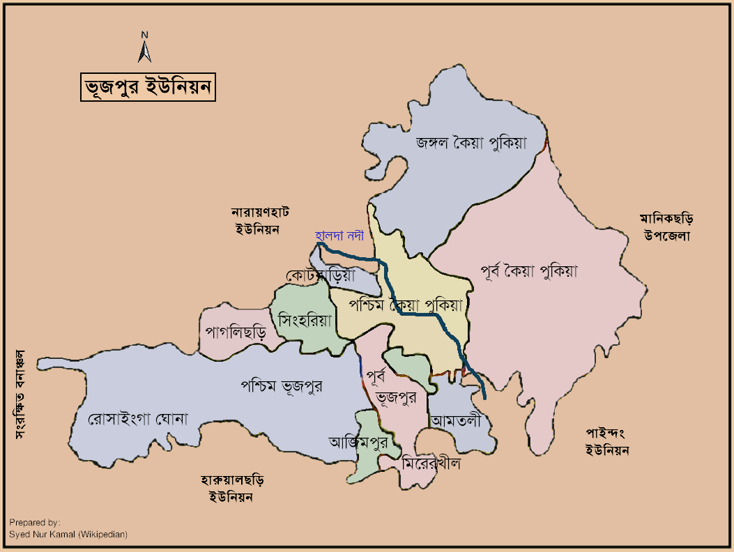 Map of Bhujpur Union, Chittagong District, Bangladesh